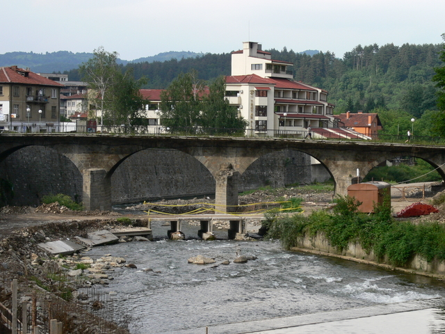 Troyan, Town in Bulgaria